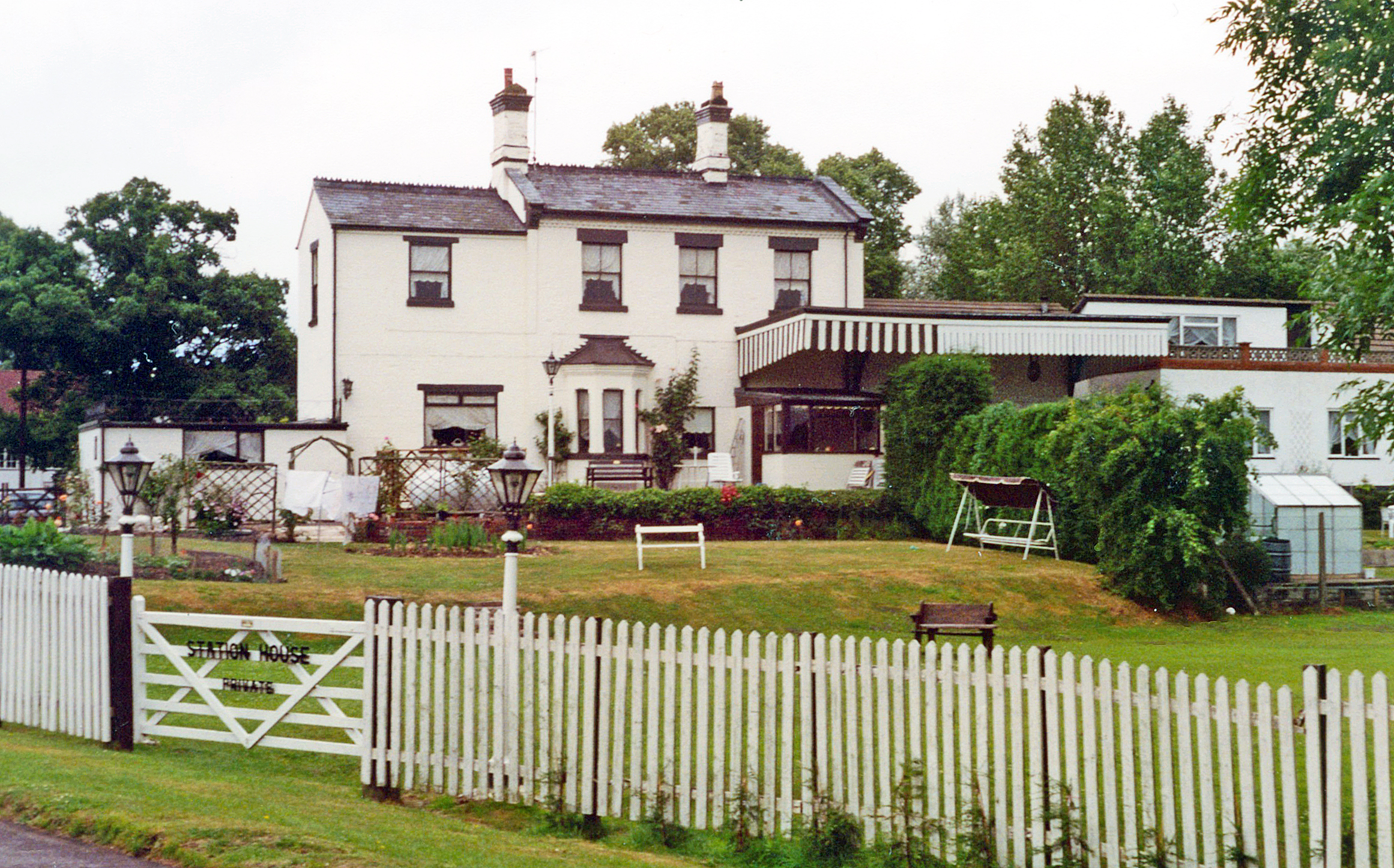 Former station at Great Alne, 1994 View southward: ex-GWR Bearley (to right) - Alcester (to left) branch; all closed back on 25/9/39